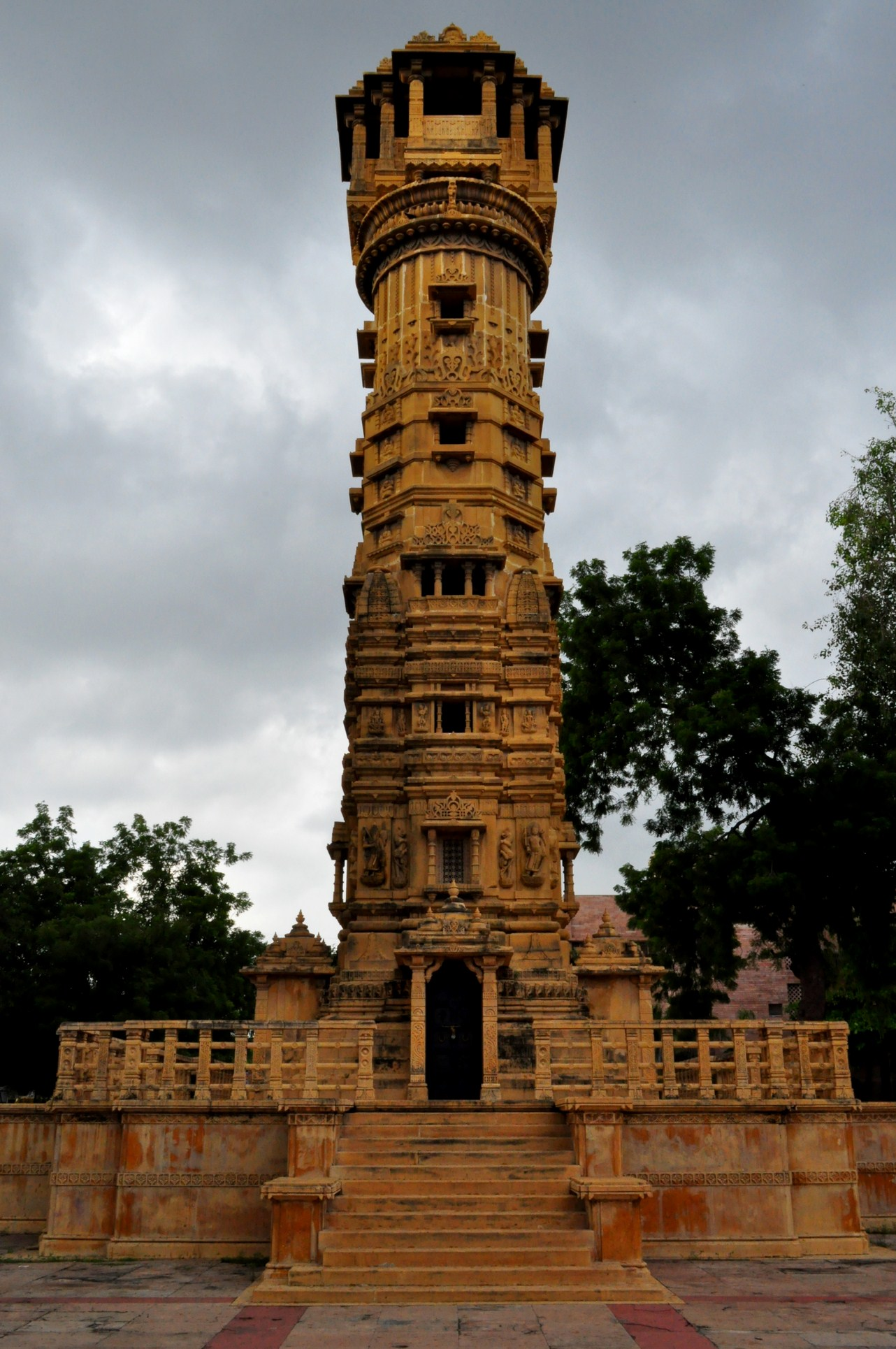 Kirti Stambh, Hutheesing Temple